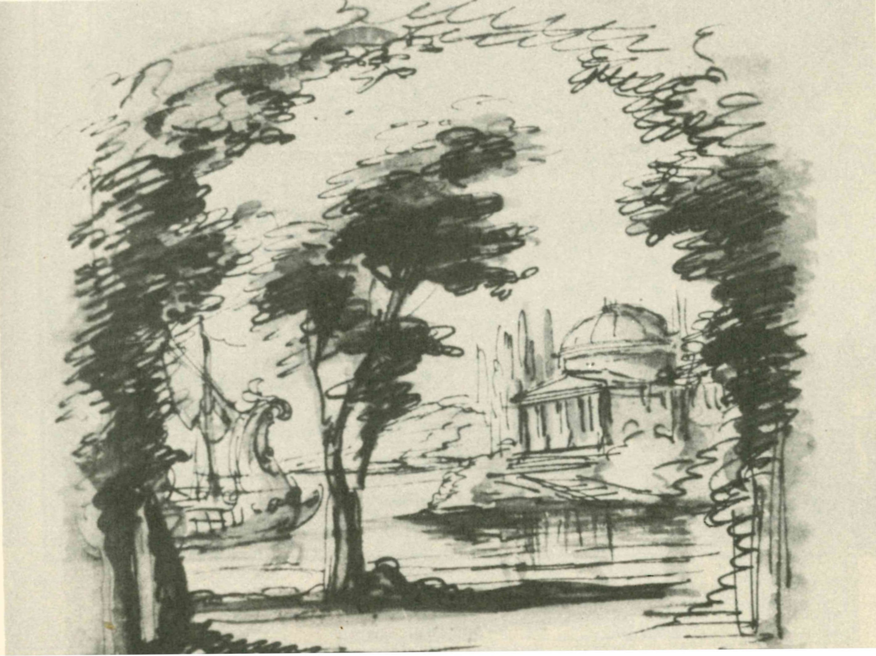 Stage design by Filippo Juvarra (1678–1736) for Amor d’un Ombra e Gelosia d’un Aura, Act I (?) possibly for the opera by Domenico Scarlatti Amor d'un Ombra, dramma per musica on a libretto by Carlo Sigismondo Capece (first performed on 15 January 1714 in Rome); revised as Narciso (libretto by Paolo Antonio Rolli after Capece, 30 May 1720 London)